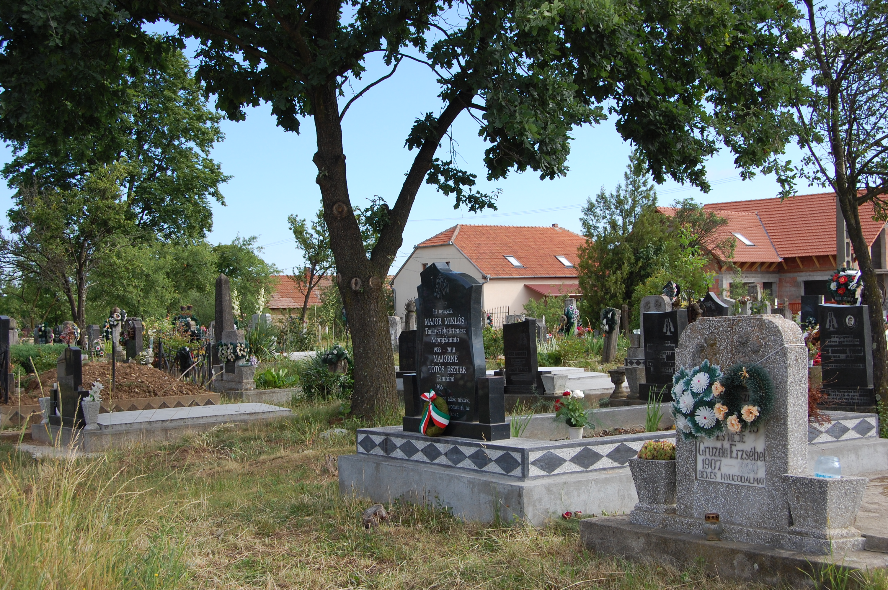 Major Miklós' tomb in Nagyfalu (Nusfalau, Romania)